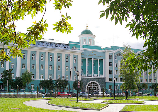 Photo of UdSU